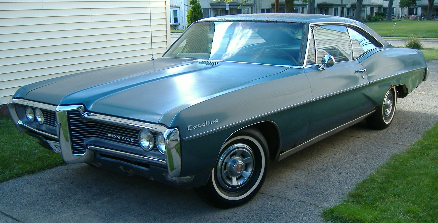 1968 Pontiac Catalina - 400 cu.in./2-bbl carb/TH400 Trans